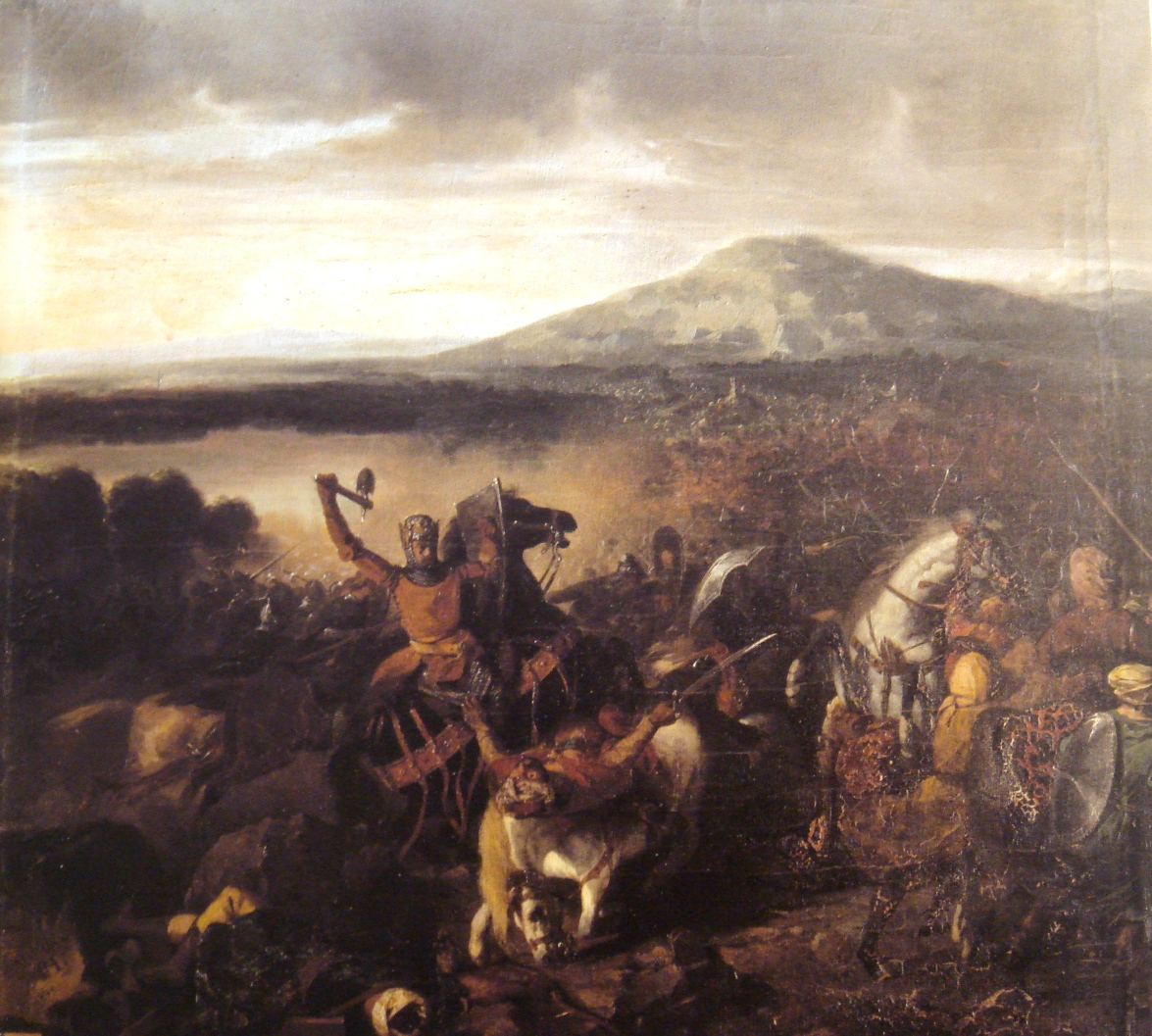 Roger I of Sicily at the Battle of Cerami in 1063